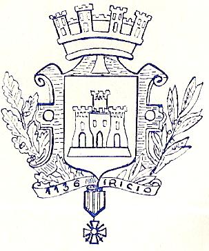 Coat of arms of Hirson - a commune in Picardy, France - which is marked Iricio 1136.